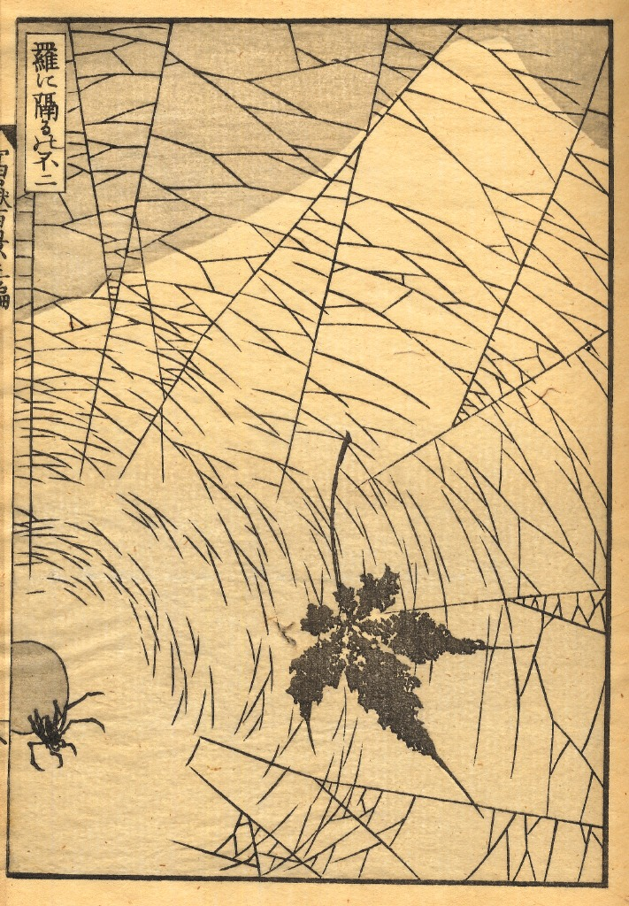 Mt_Fuji_Behind_a_Spider_Net